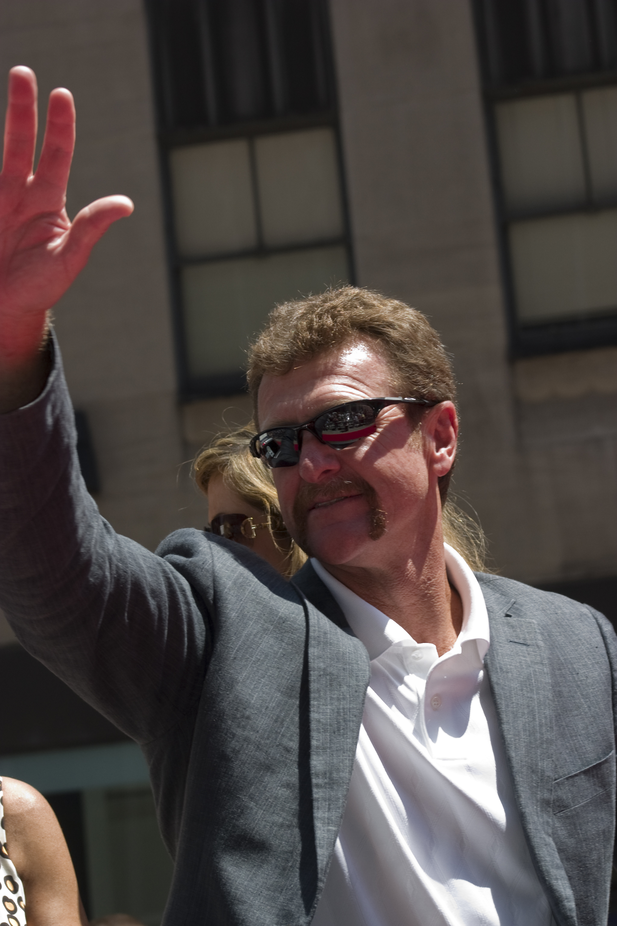 Baseball player Robin Yount. © Rubenstein, photographer Martyna Borkowski